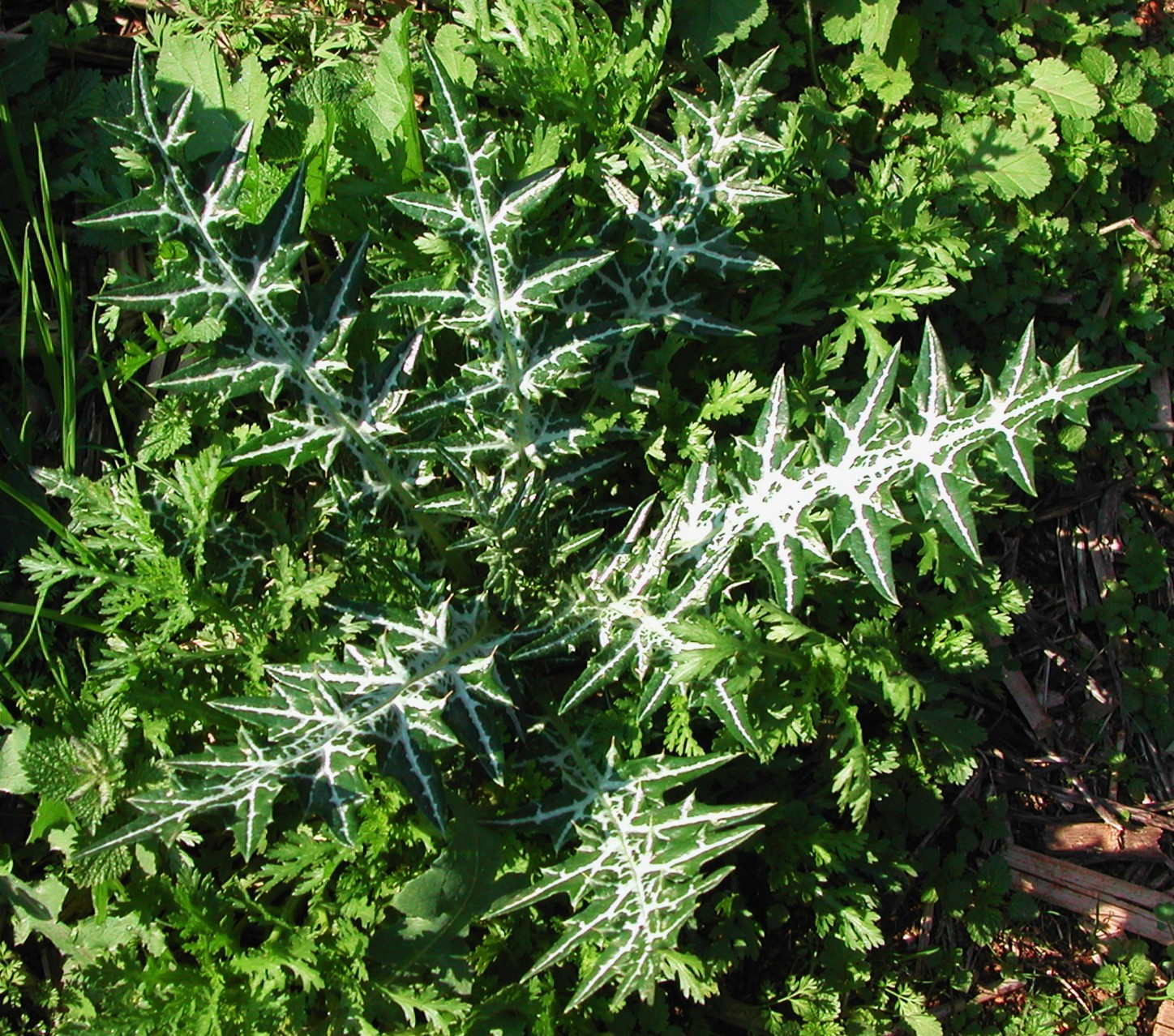 Galactites winter rosette (Galactites tomentosa) Mallorca.